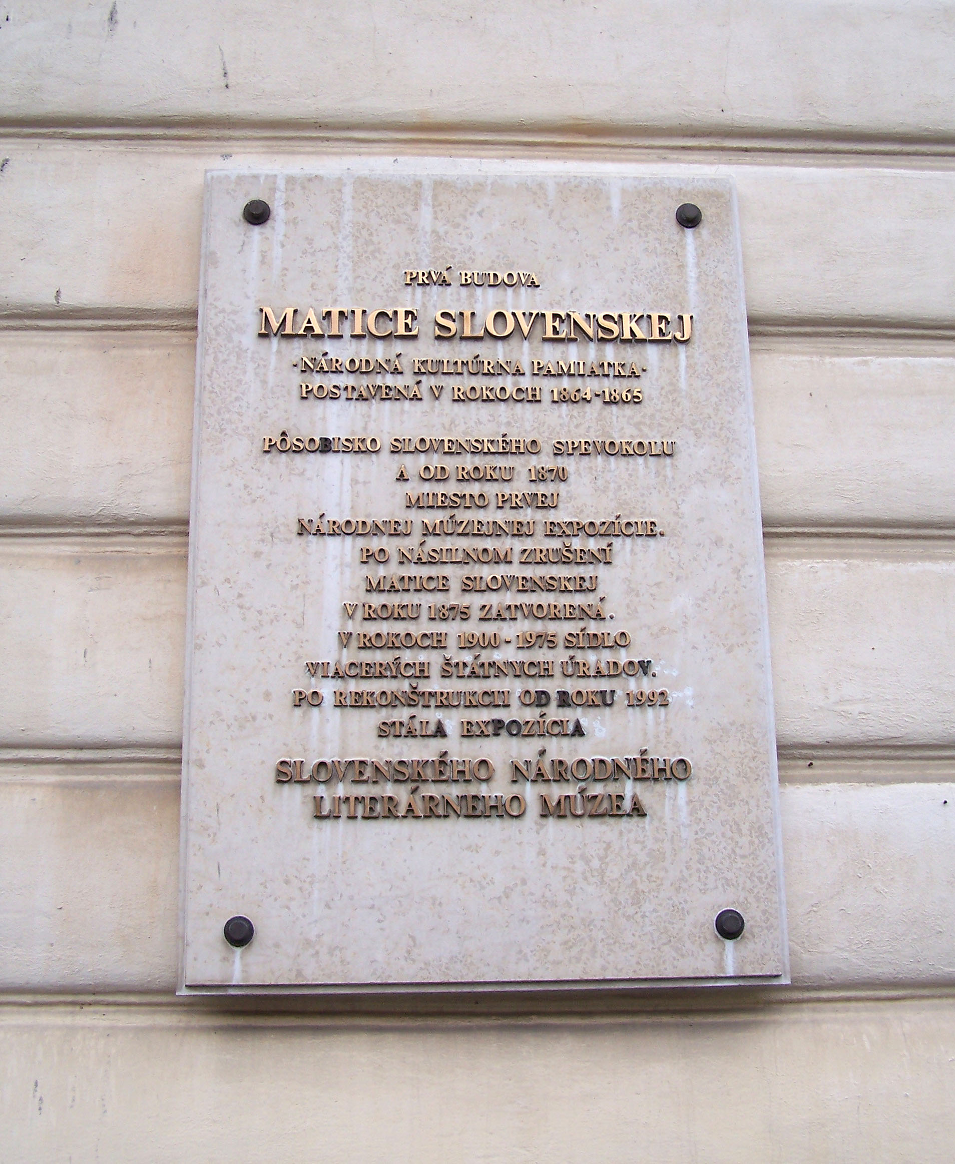 Memorial plaque at the first building of Matica slovenská in Martin, Slovakia